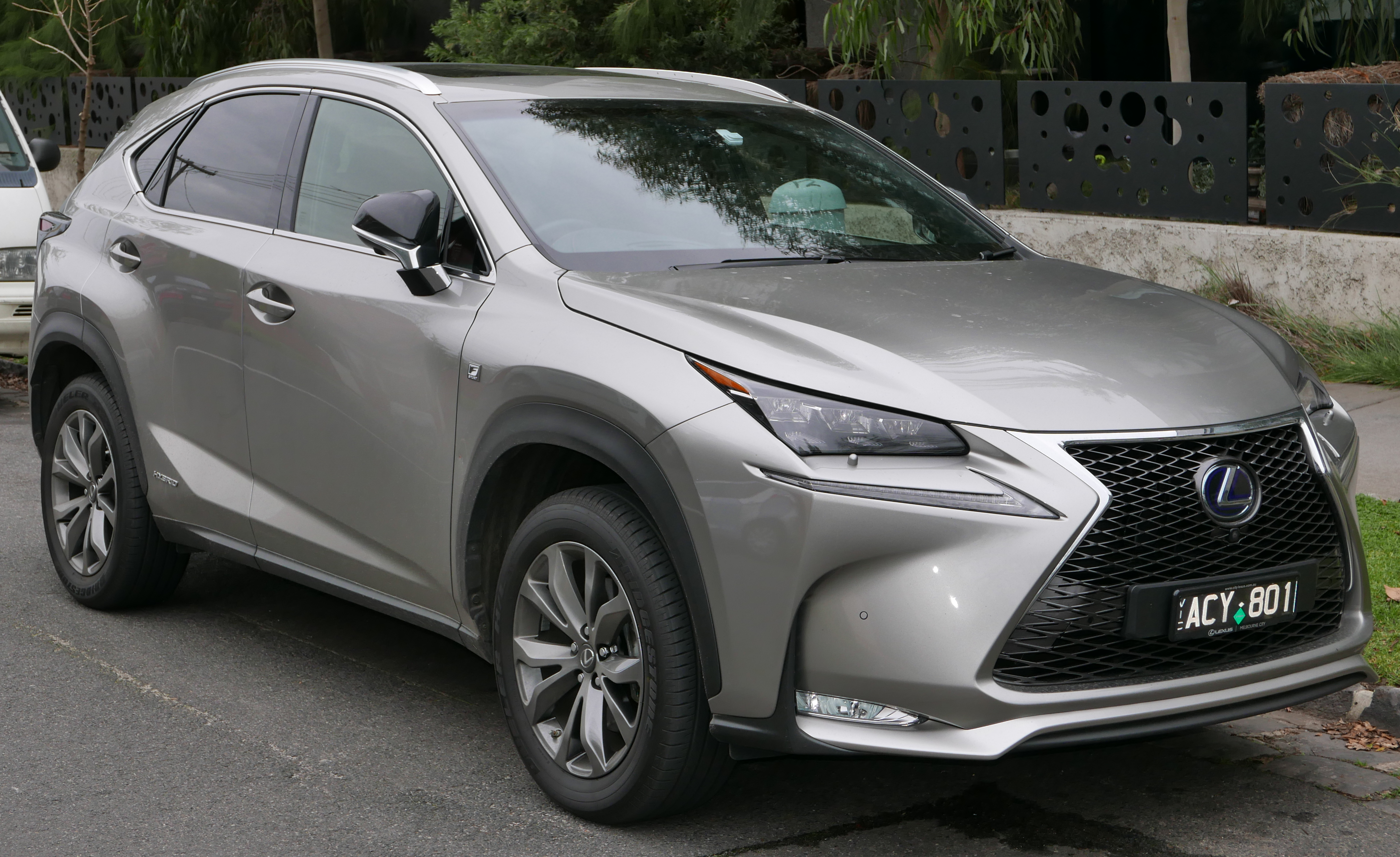 2014 Lexus NX 300h (AYZ15R) F Sport wagon. Photographed in Kew, Victoria, Australia. Vehicle registration enquiry resultsJurisdictionVictoriaRegistrationACY801Chassis codeJTJBJRBZ102005506Engine code2AR1181298Compliance date2014-10Year of manufacture2014